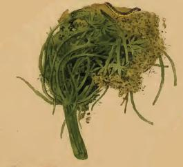 Stainton’s Natural History of the Tineina (1855–1873): Agonopterix nervosa an inflorescence of Oenanthe crocata with flowers drawn together by larva